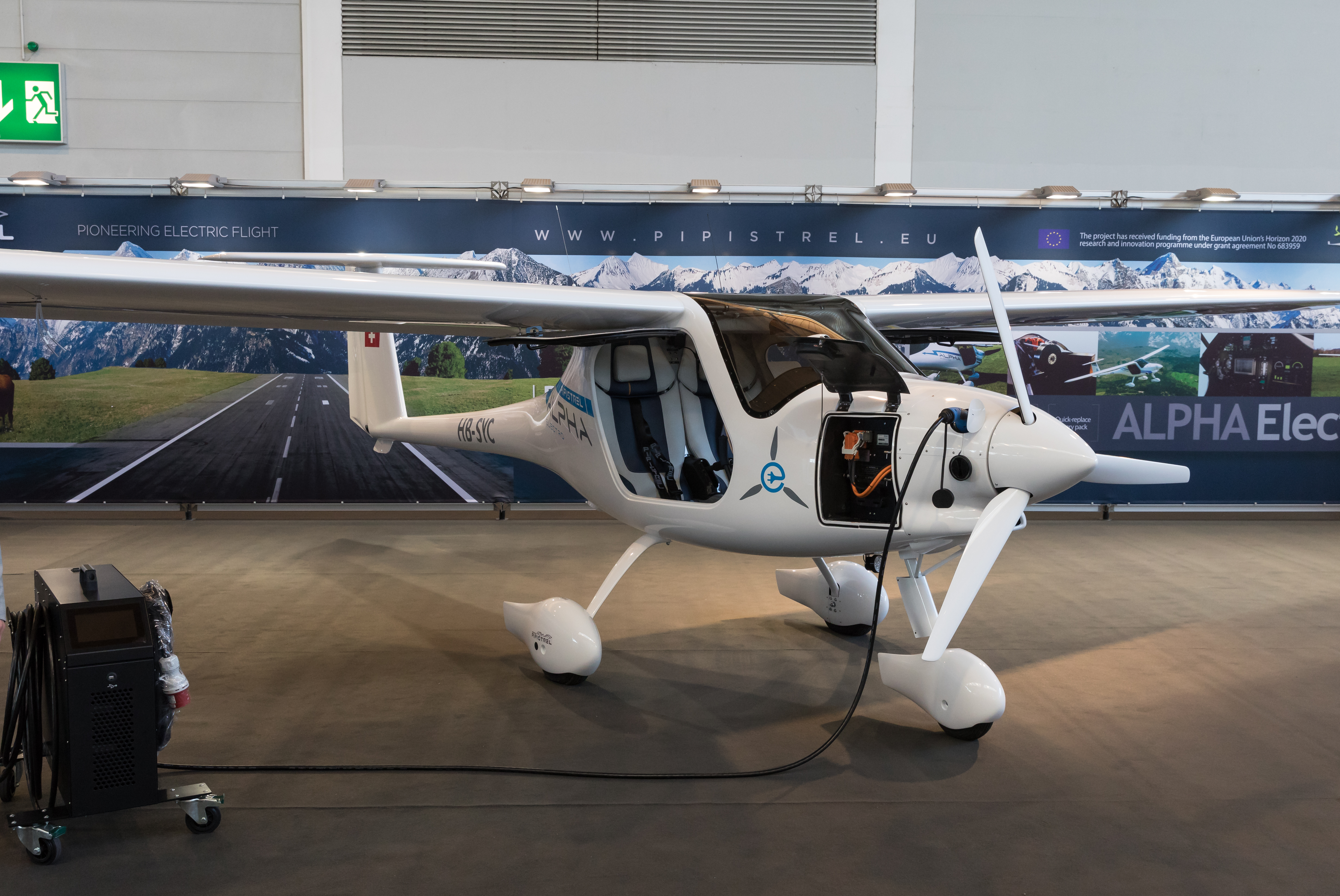 AERO Friedrichshafen 2018